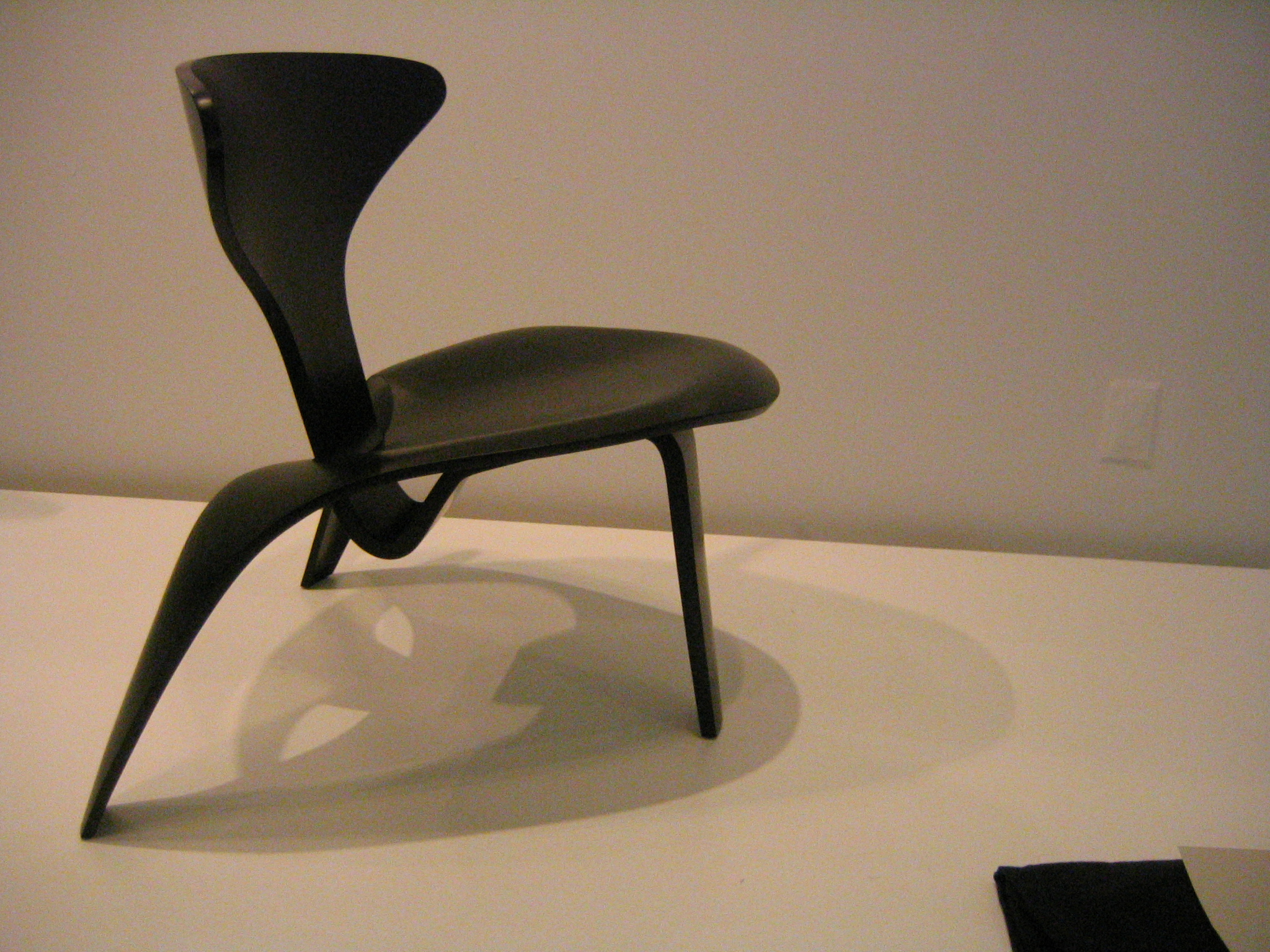 Poul Kjaerholmøs PK0 chair